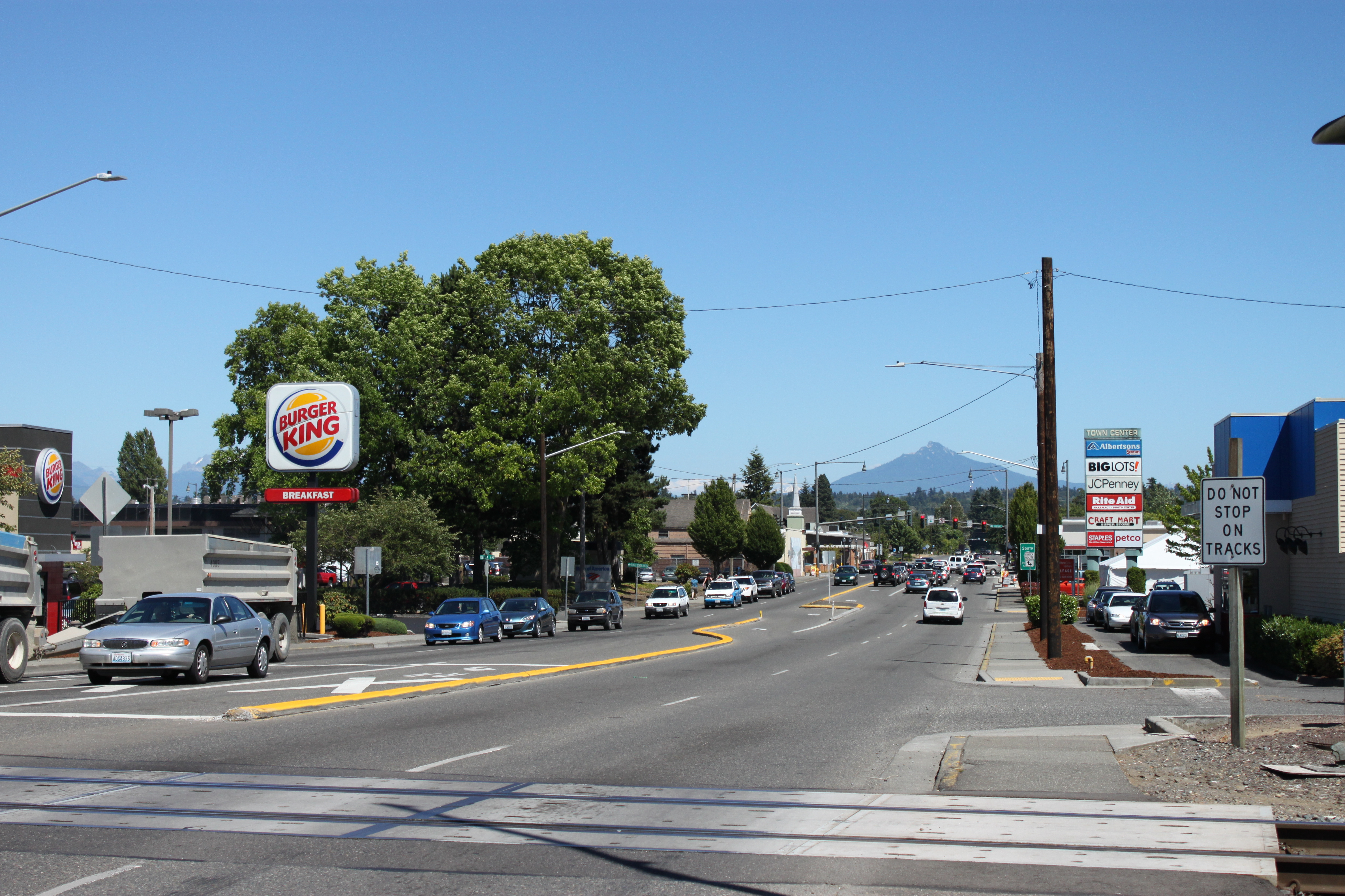 State Route 528 eastbound at a railroad crossing in Marysville, Washington.